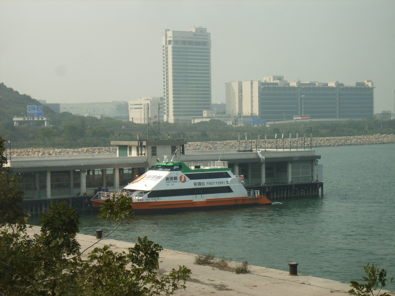 Tung Chung New Development Ferry Pier (東涌發展碼頭) is the only ferry dock of the northern coast of Lantau Island, one of Hong Kong's outlying islands.